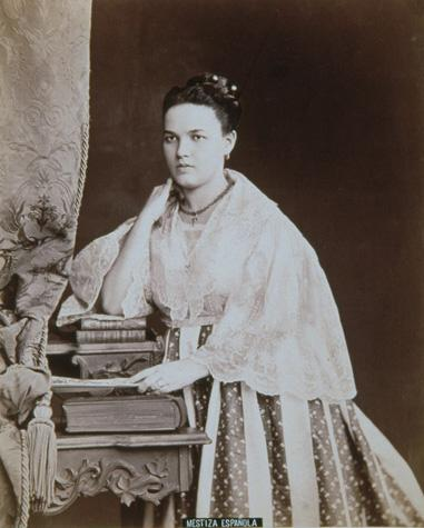 A mestizo Spanish Woman (also Mestiza).